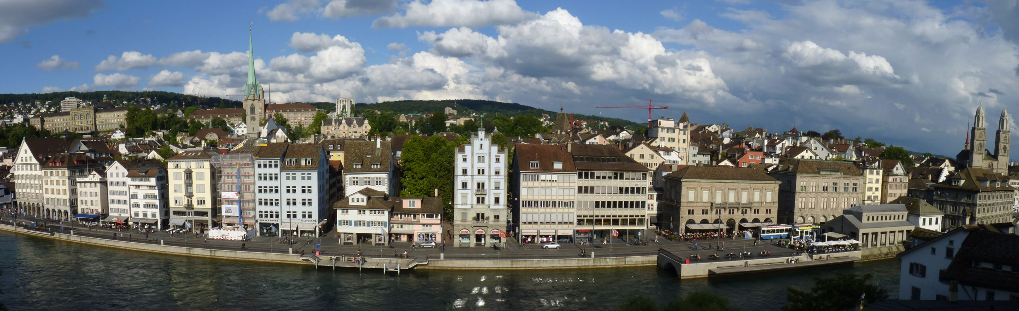 Limmatquai and river Limmat.